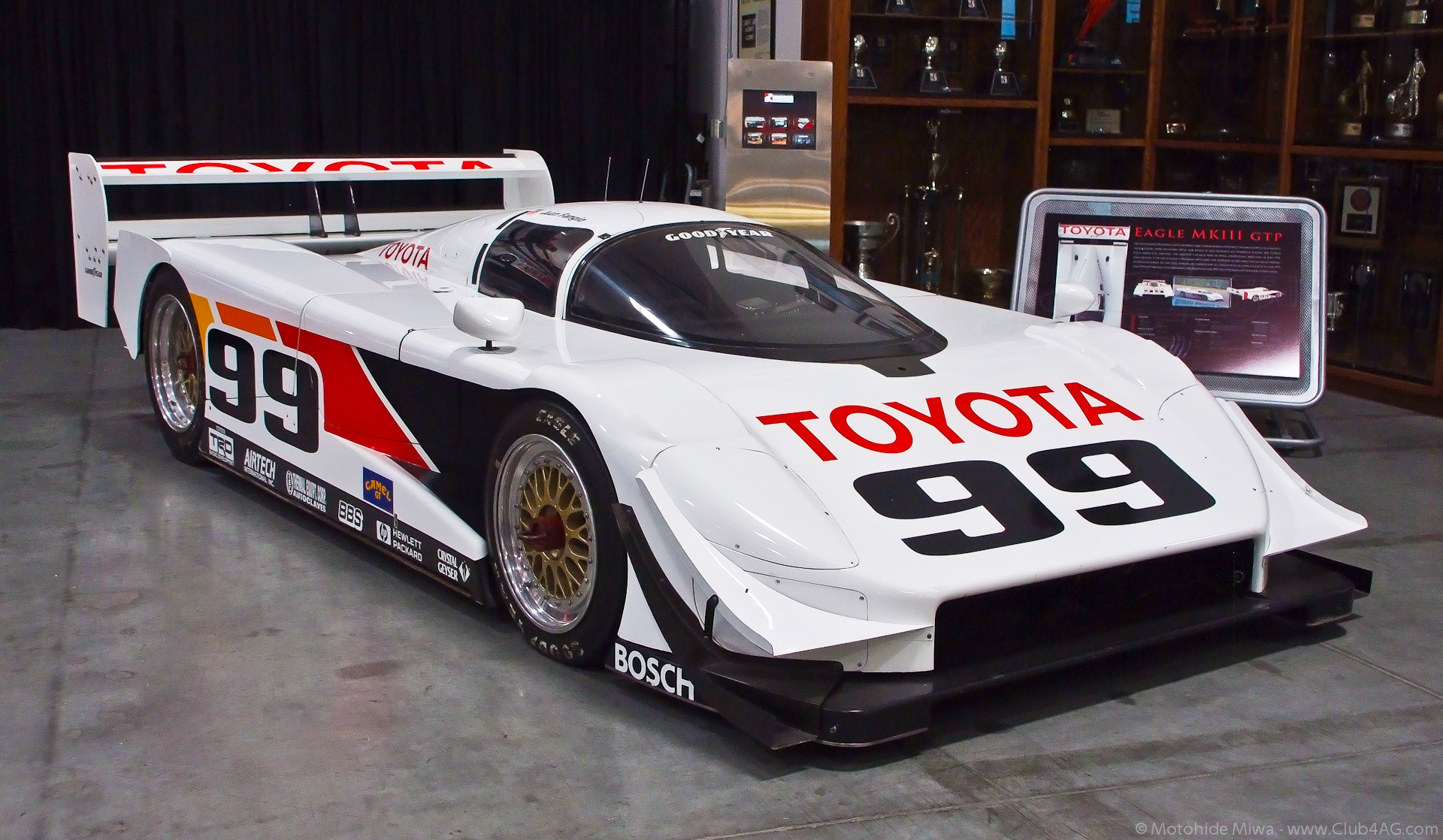 IMSA GTP "EAGLE" #99